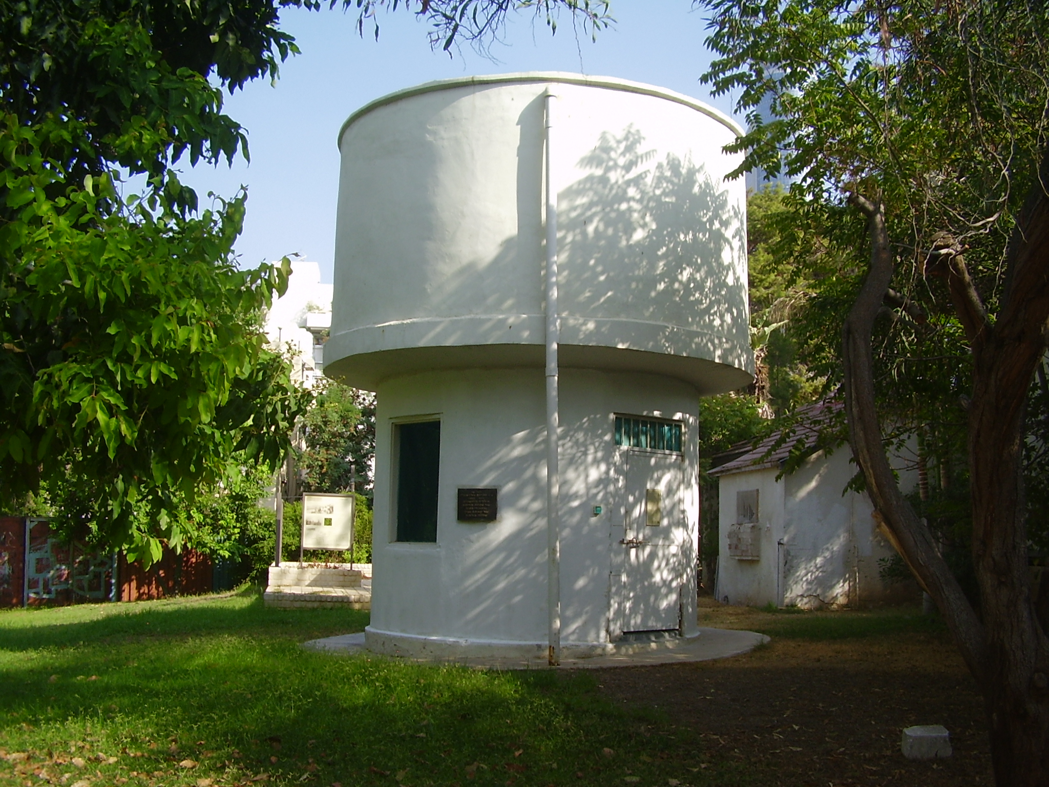 water tower in borochov neighborhood, giv'atayim מגדל המים של משק הפועלות בשכונת בורוכוב. כיום-בתחום בית הספר ע"ש תלמה ילין